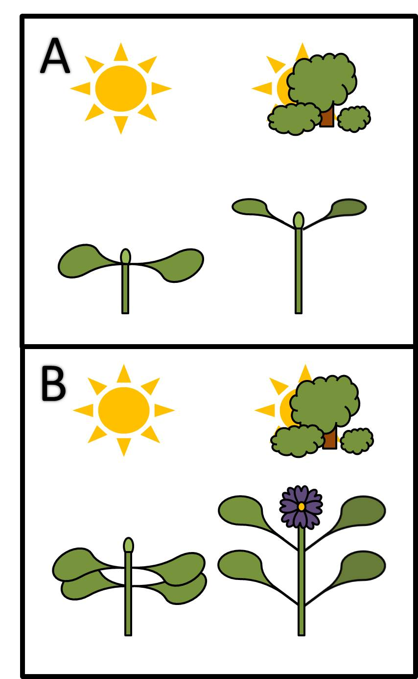 Schema der Schattenflucht